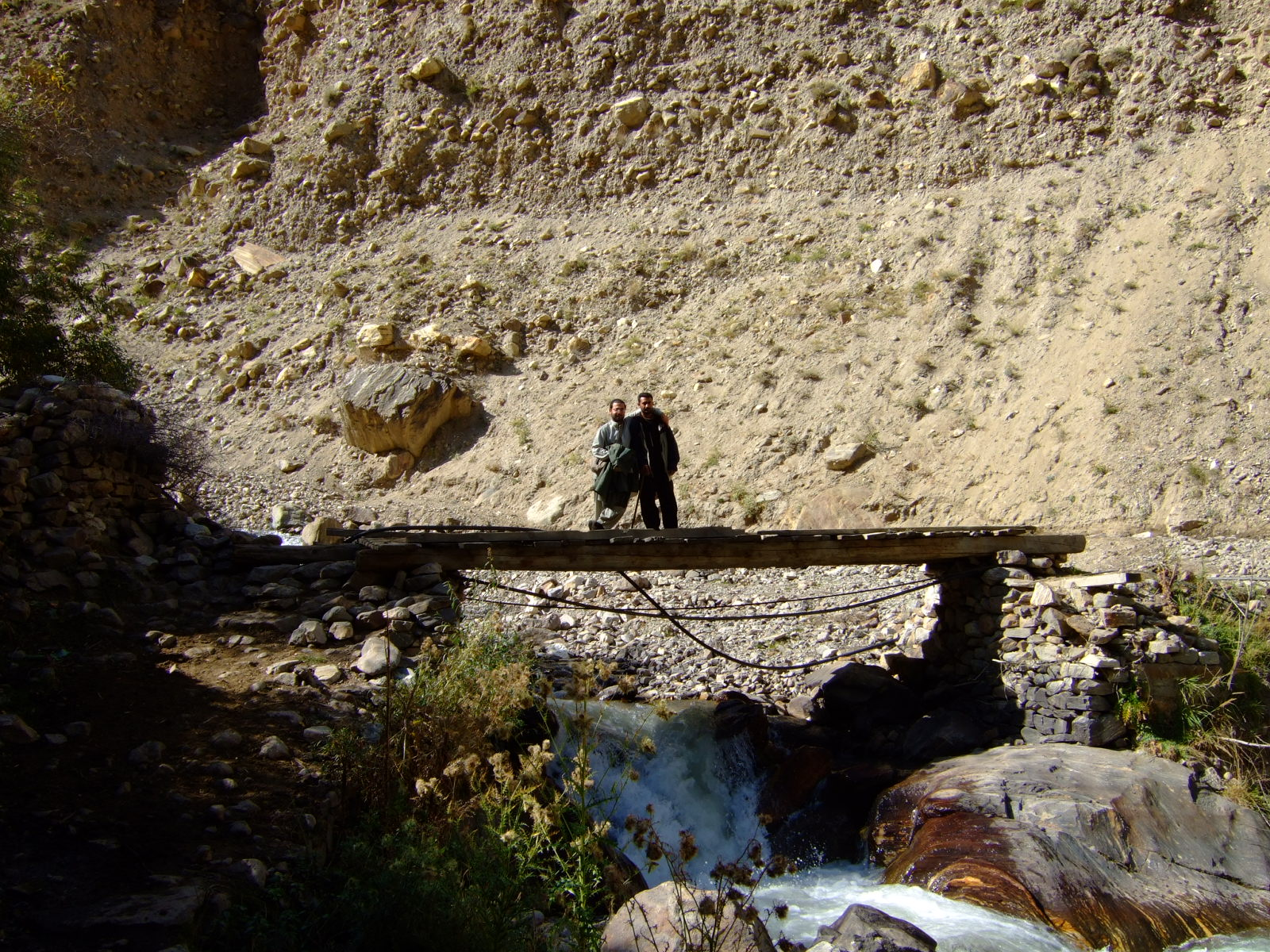 Wooden bridge for animals and jeep, Astore Valley, Pakistan